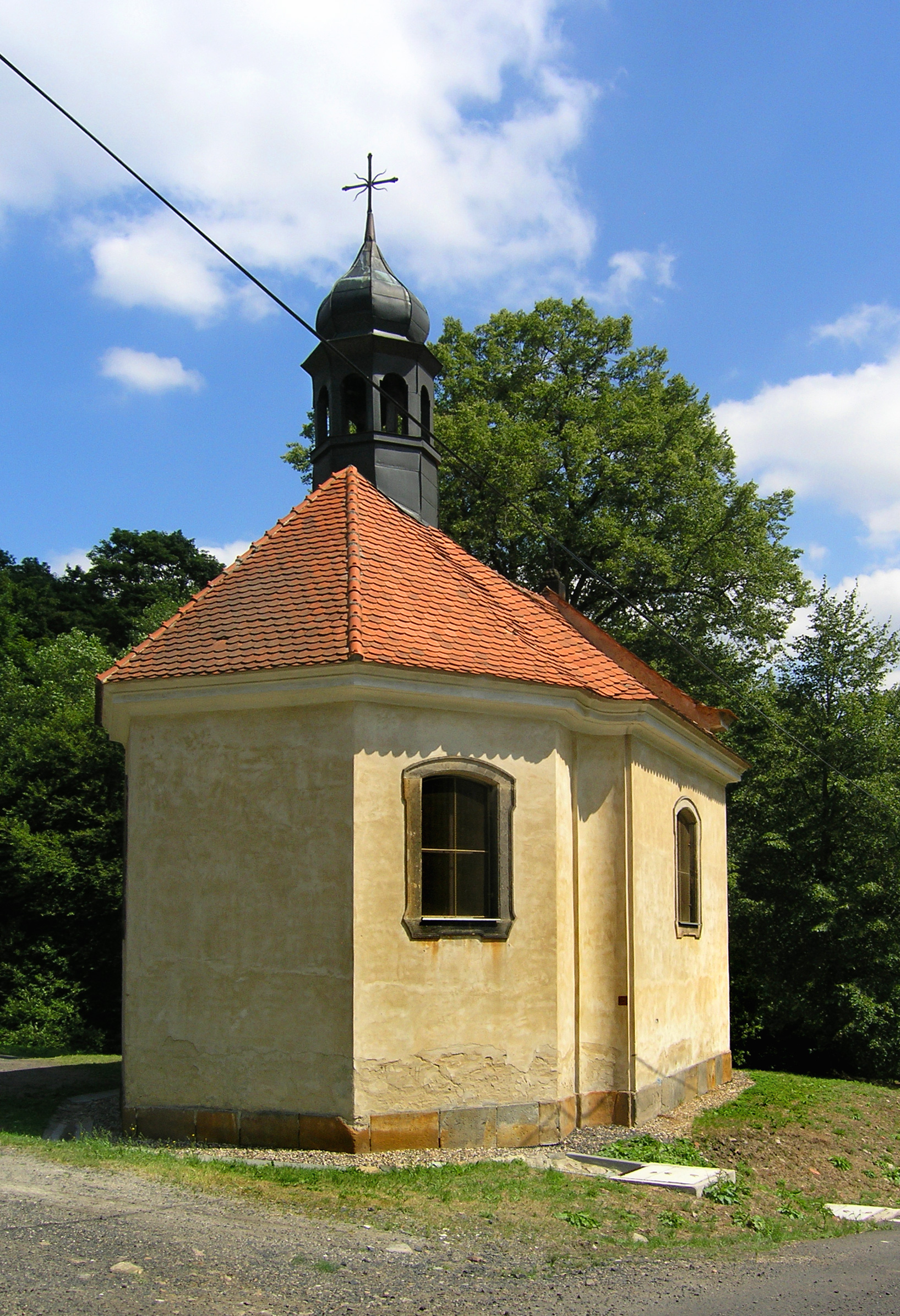 Chapel in Hrad Osek village, part of Osek town, Czech Republic